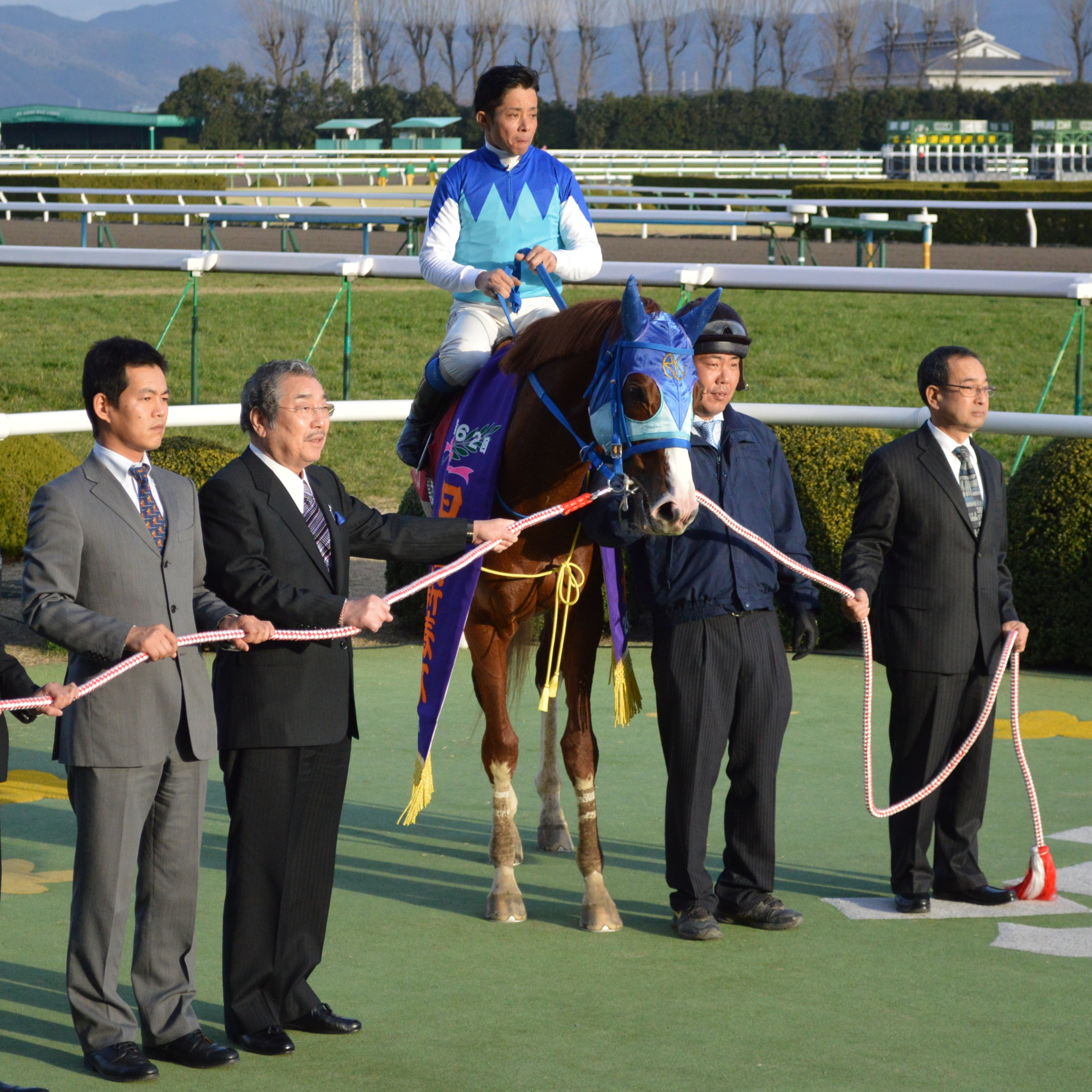 Japanese race horse Admire Deus at Kyoto racecourse. Kyoto (JPN) 18 Jan 2015Nikkei Shinshun Hai (Grade 2 Handicap) (4yo+) (Turf) 1m4f Firm RankHorse NameOddsAgeWgtJockeyTrainer1stAdmire Deus (JPN)11/1C455Yasunari IwataMitsuru Hashida2ndHula Bride (JPN)16/1M655Manabu SakaiKazuyoshi KiharaOthers are omitted. (18 horses entered in a race.)